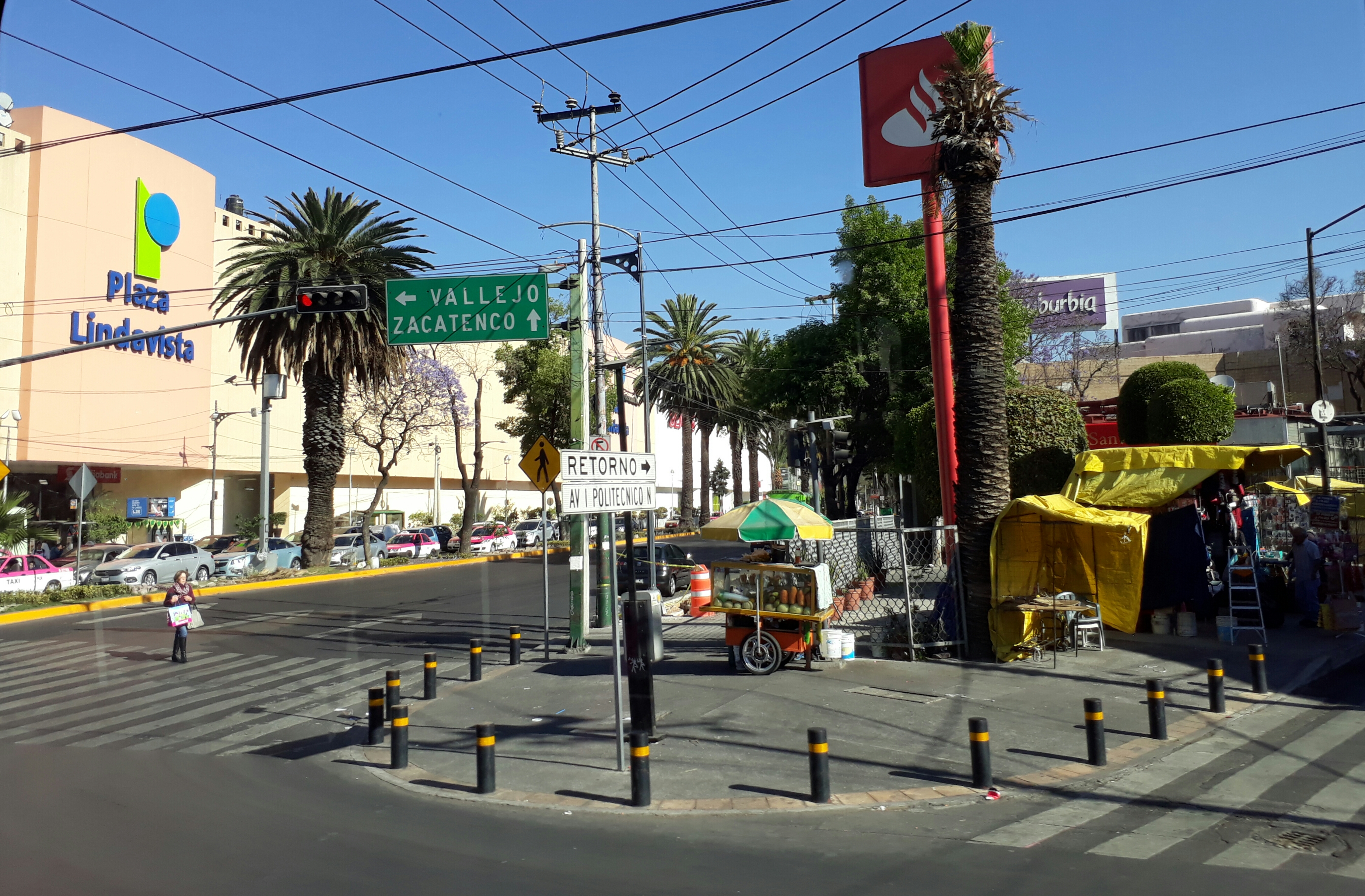 Montevideo and Nacional Polytechnic Institute Avenue in Lindavista, northern Mexico City, 2017